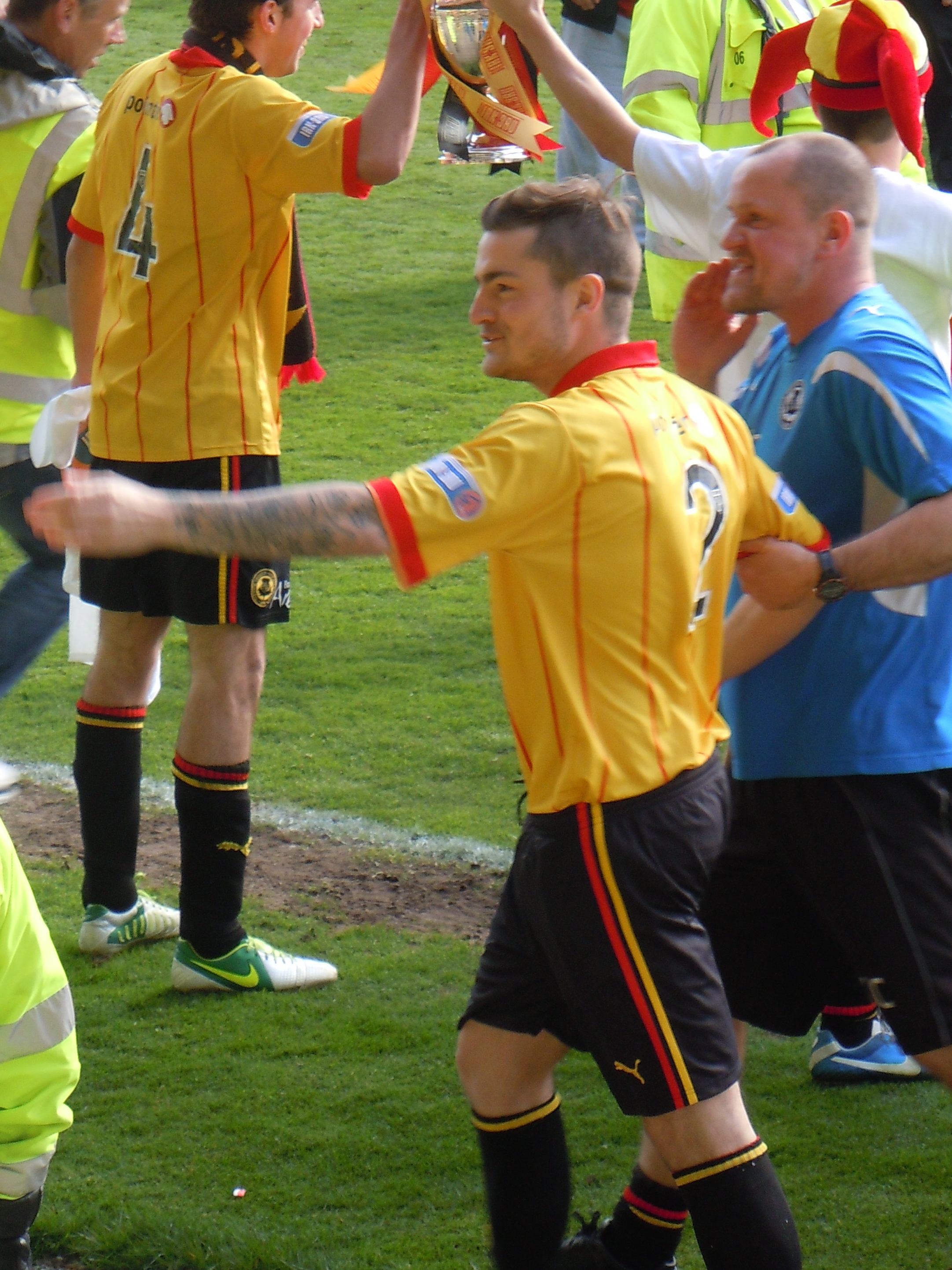 Paton winning the 2013-14 SFL1 with Partick Thistle.